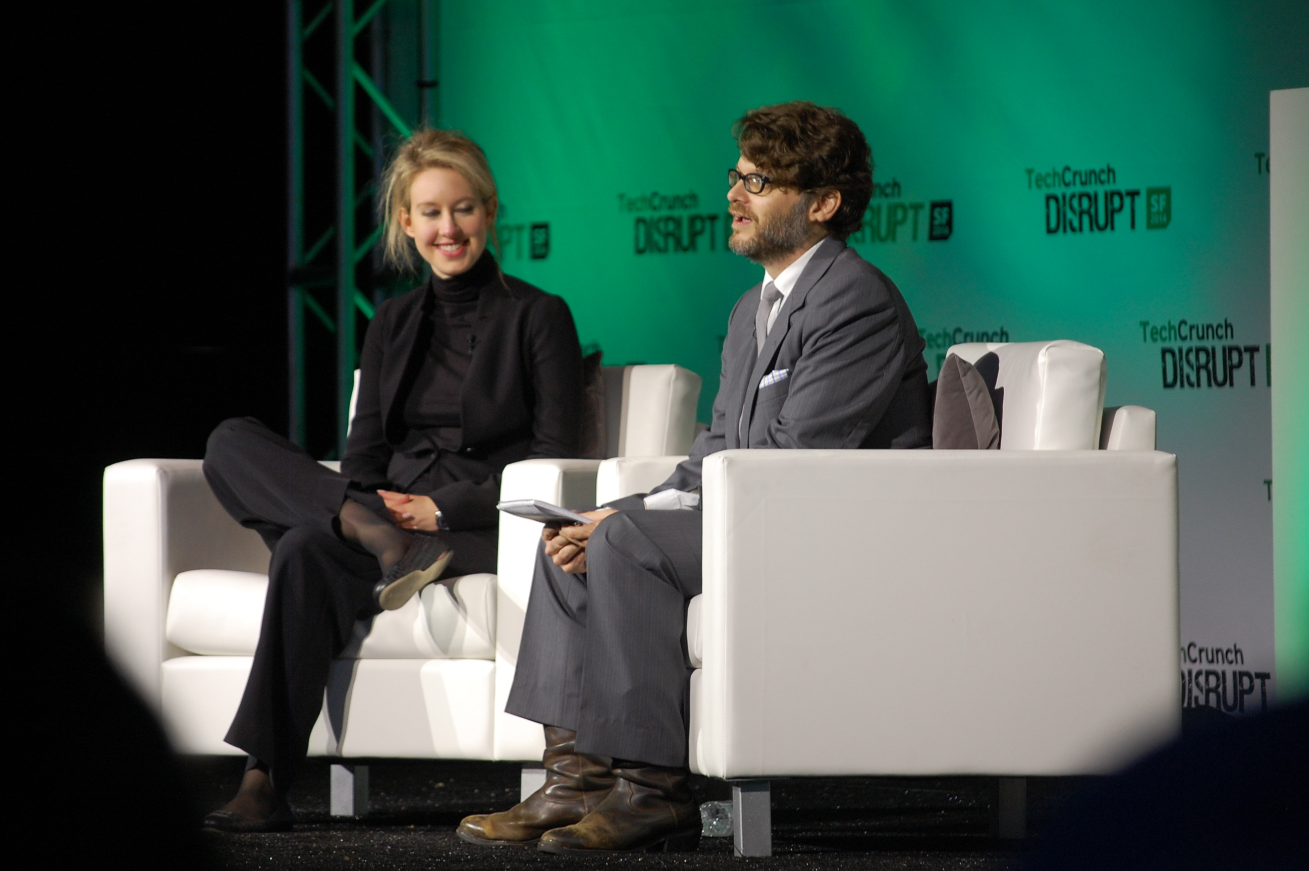 Elizabeth Holmes of Theranos at TechCrunch Disrupt SF 2014.